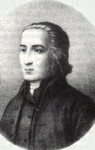 William Williams Pantycelyn (1717-1791)